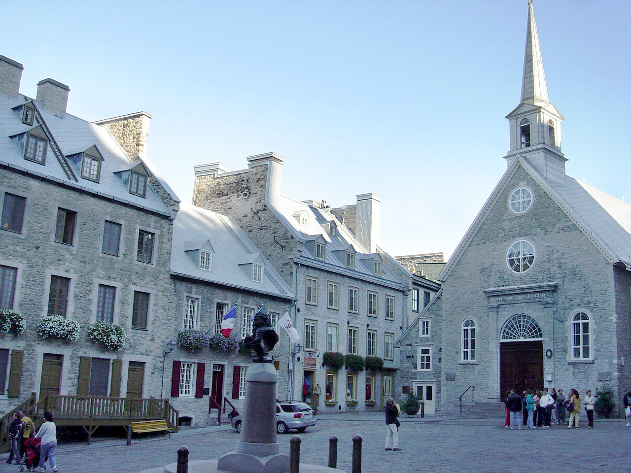 Notre Dame des Victoires church, historic Basse-Ville (Lower Town) Quebec City. Photo taken by Bobak Ha'Eri, August 2004. Please observe license and properly cite in use outside Wikipedia. If you have any questions about the licensing, please feel free to use the contact information at my user page.